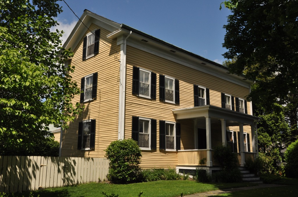 A photo of the historic farmhouse at the Capt. Edward Fuller Farm at 59 North St. in Newton, Massachusetts.